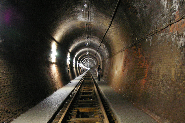 Oohikage-tunnel (Yamanashi, Japan)